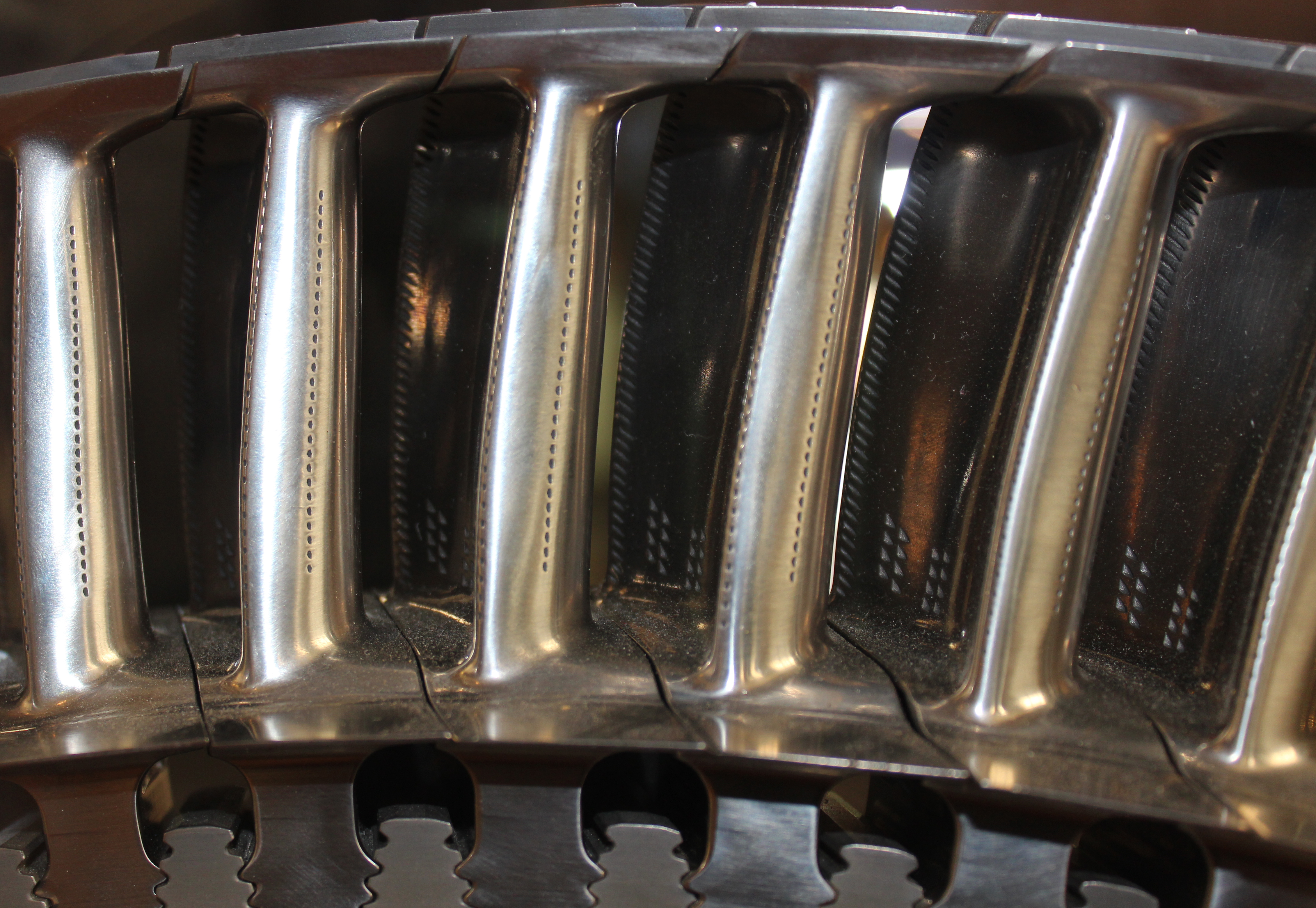 Nickel high pressure turbine blades with cooling holes to operate above their melting point. (Science Museum)